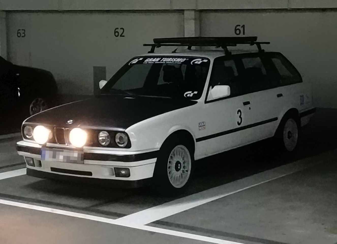 1989 BMW E30 Touring